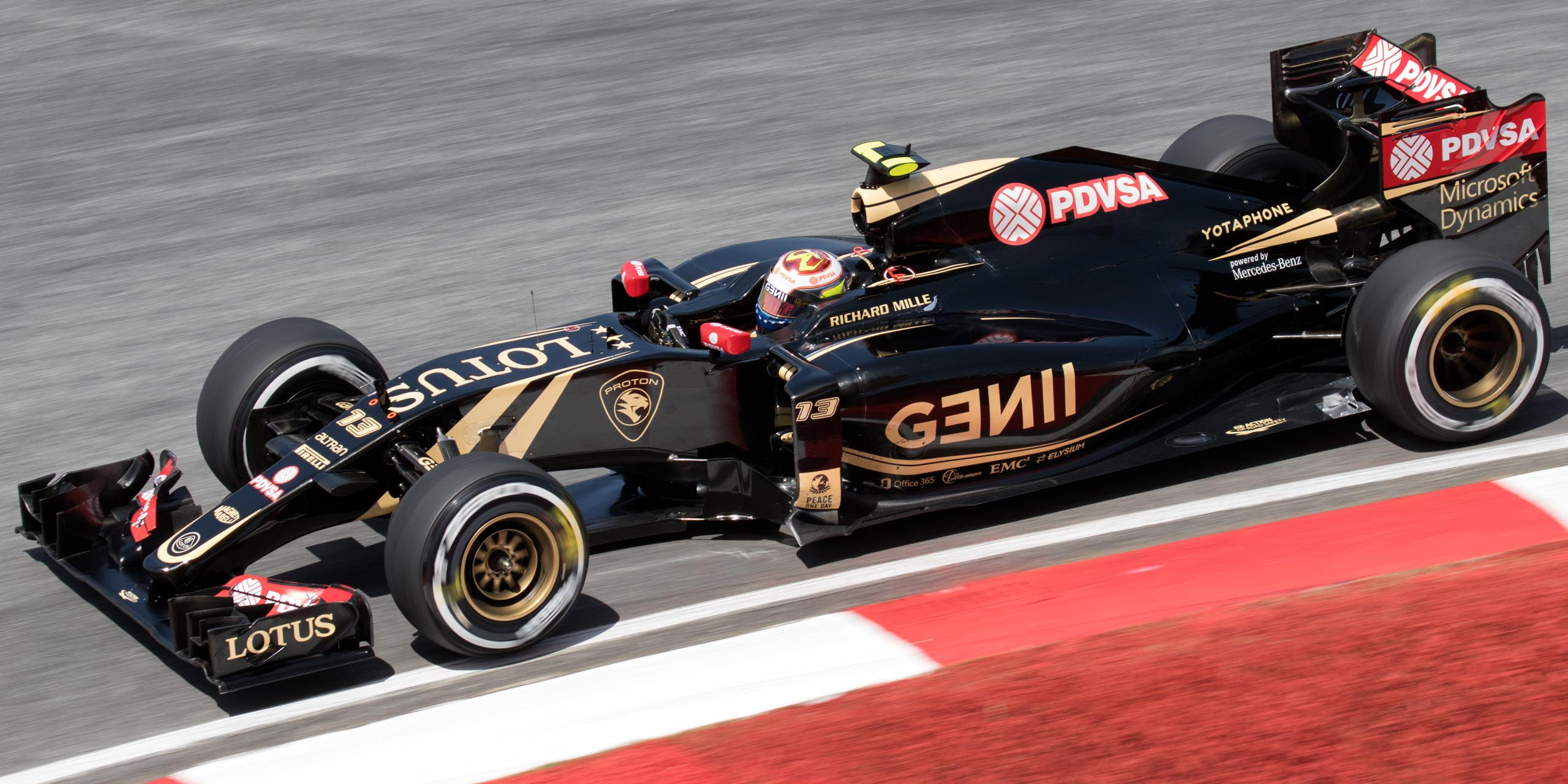 Formula One 2015 Rd.2 Malaysian GP: Pastor Maldonado (Lotus)